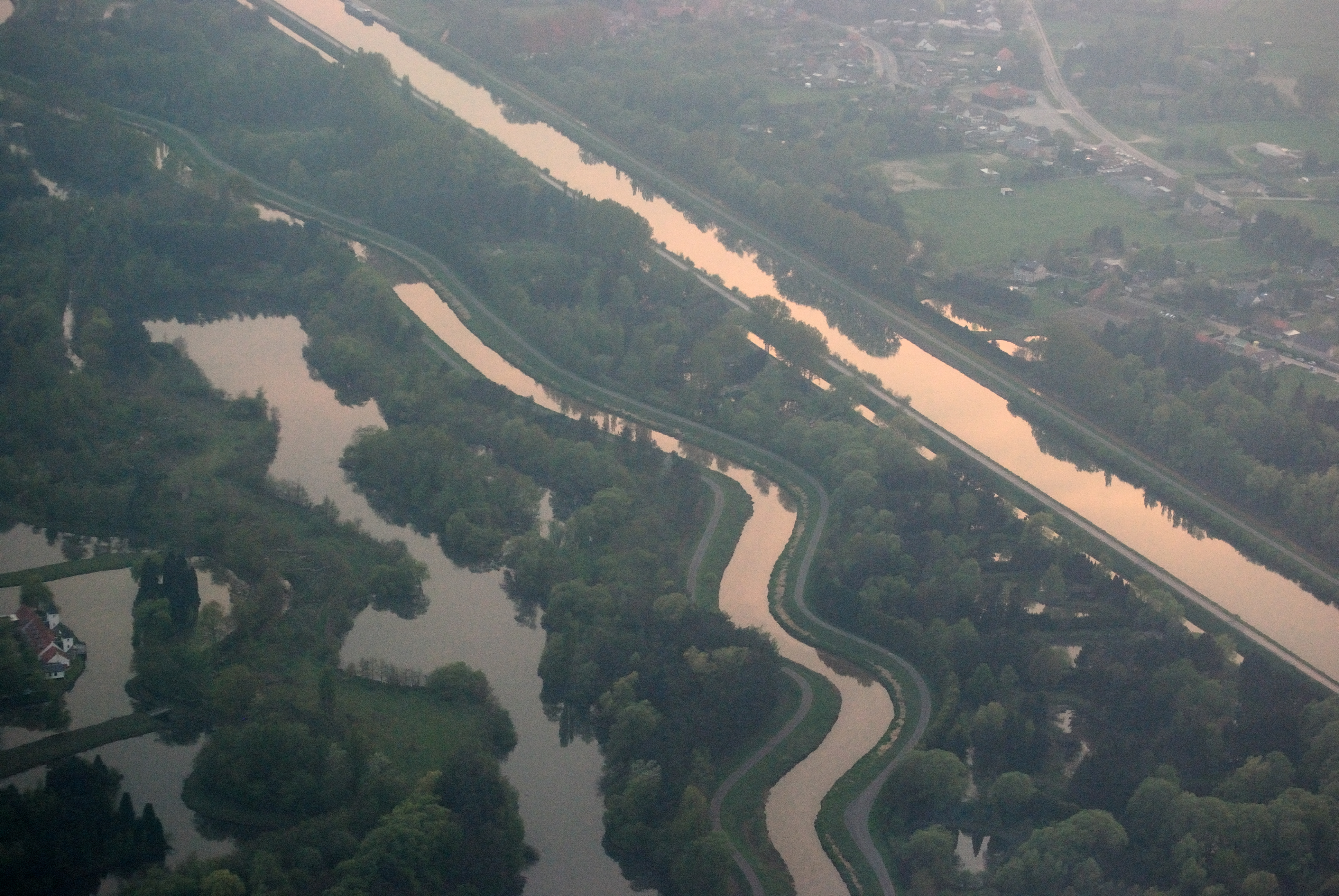 Aerial view of a water-rich area near the village centre of Emblem, commune of Ranst, Belgium. The straight canal is the Nete Canal. The meandering river is the Kleine Nete (Small Nete). The thin straight line to the immediate left of the canal is the final stretch of a creek called Nieuwe Bollaak. Nikon D60 f=55mm f/7.1 at 1/200s ISO 800. Processed using Nikon ViewNX 1.5.2.